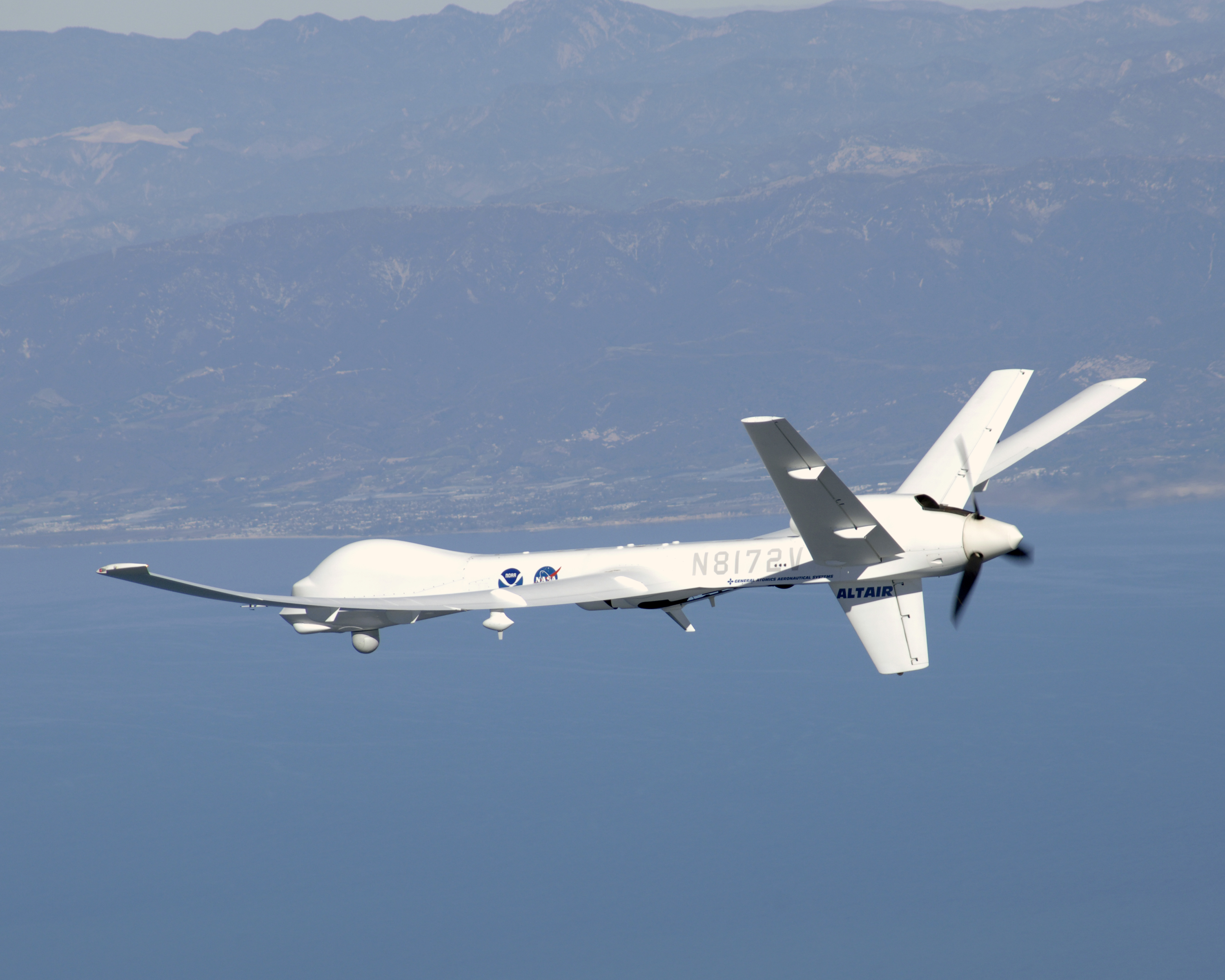 General Atomics' uninhabited Altair flew a NOAA/NASA coastal mapping, mammal observation and marine monitoring mission off the California coast in late 2005.